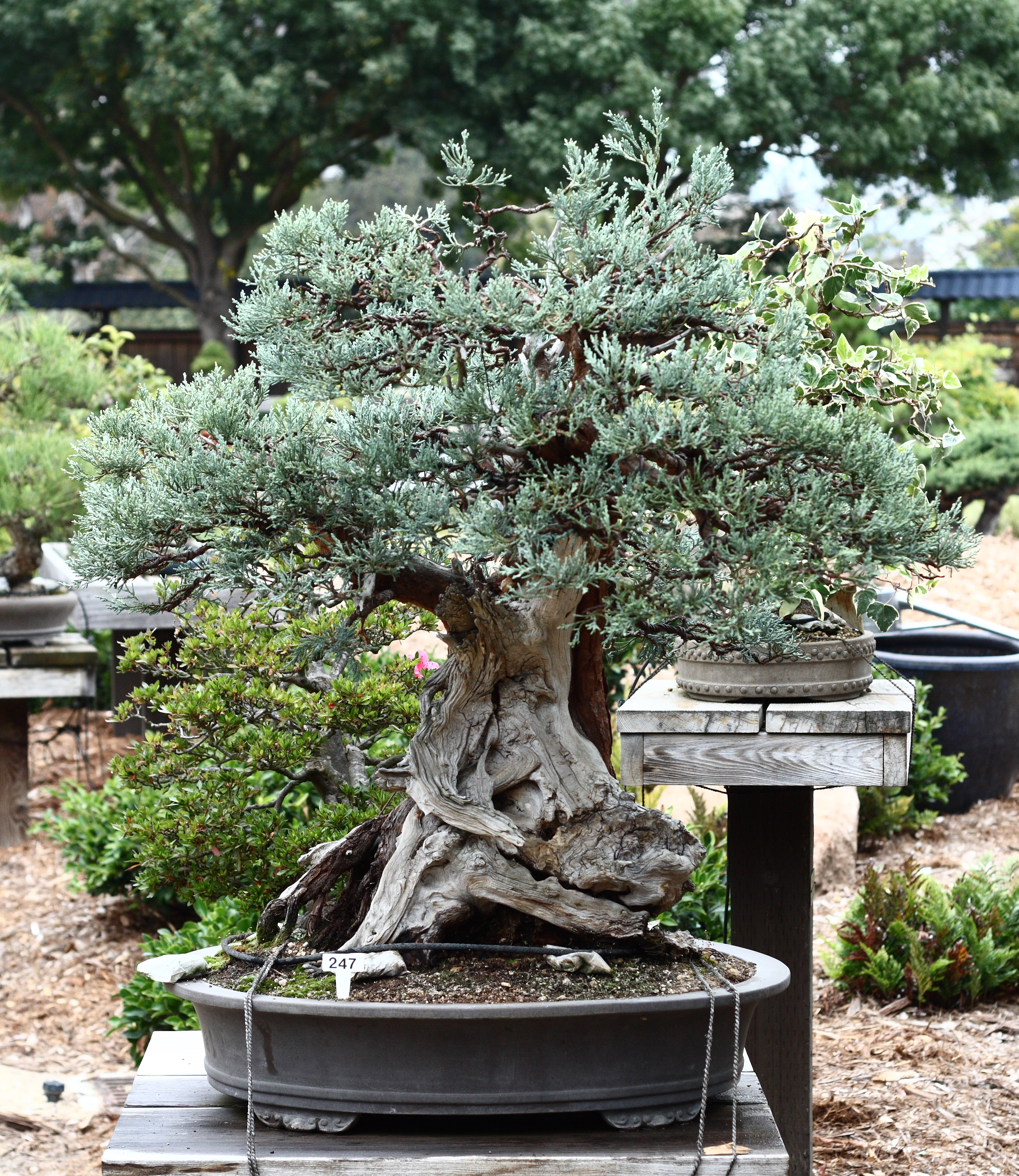 "Silver-back", a Sierra Juniper (Juniperus occidentalis var. australis), bonsai 247 of the Golden State Bonsai Federation Collection North in Oakland, California (now called the GSBF Bonsai Garden at Lake Merritt). It was donated by Joan Scroggs.